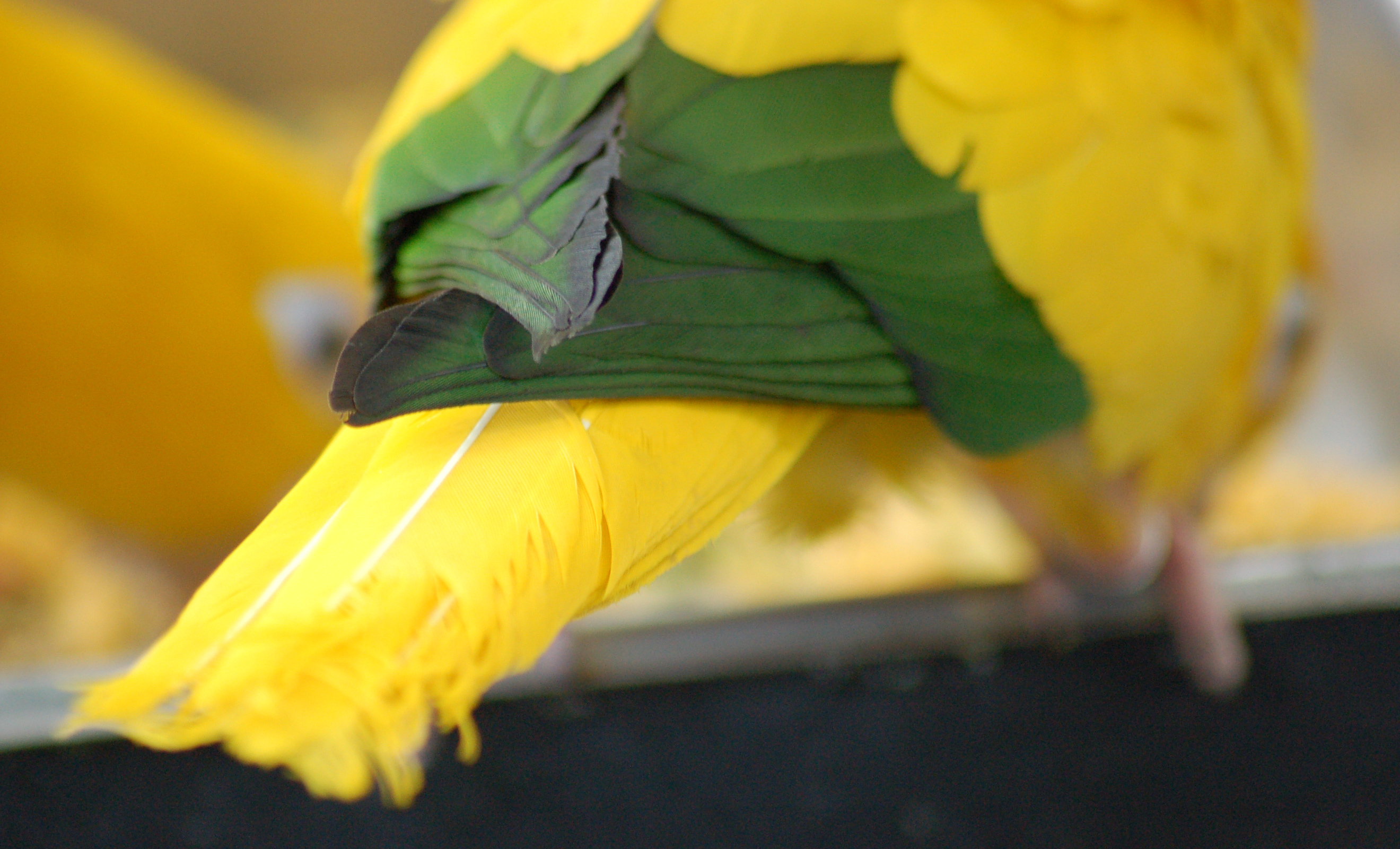 A photograph of a Golden Conureen (Guaruba guarouba en ). Photo taken at the National Aviary.